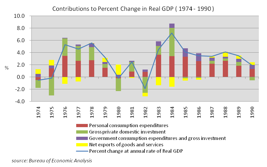 Contributions_to_Percent_Change_in_Real_GDP_(the_US_1974-1990)